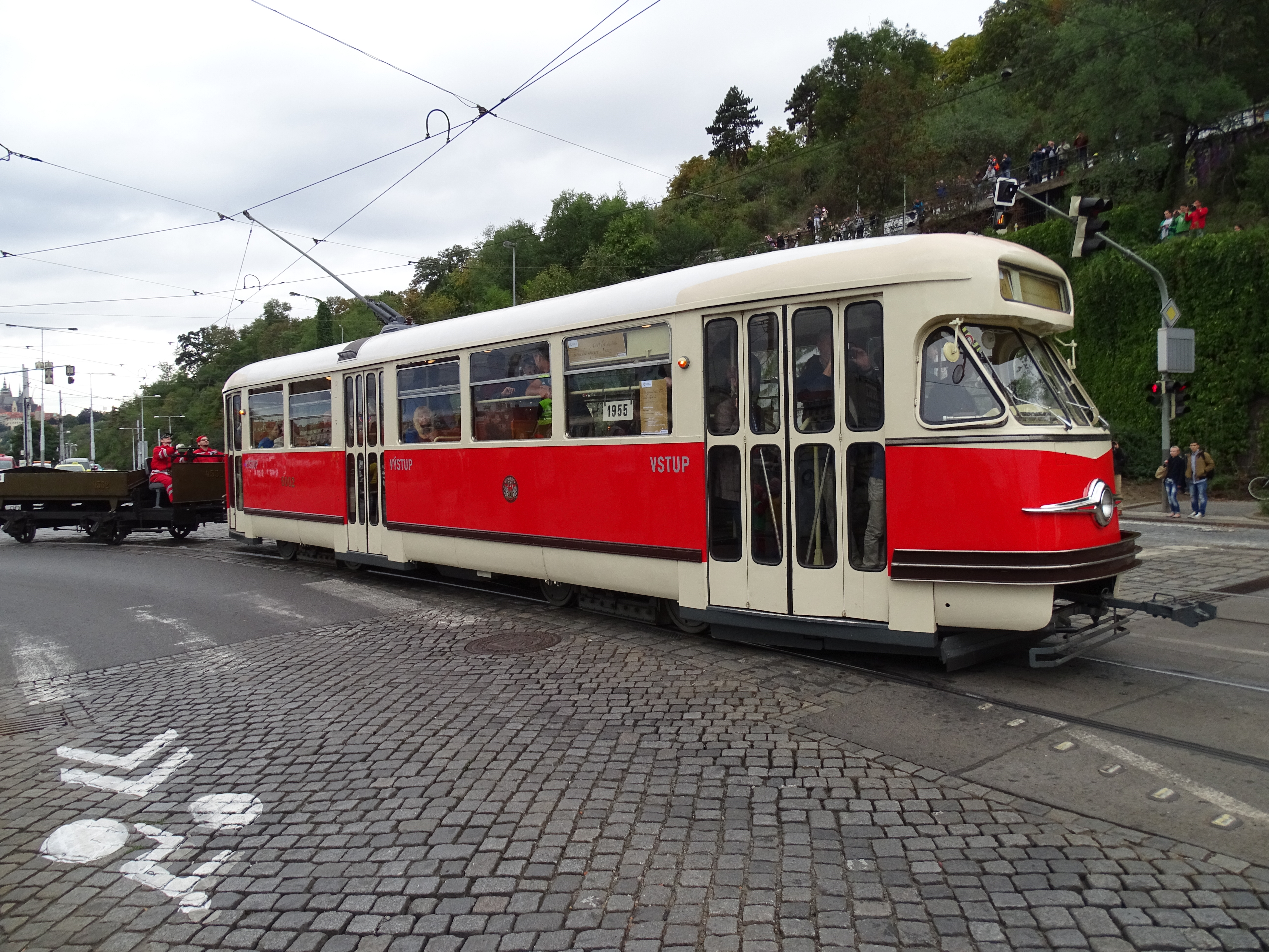 Prague-Holešovice, Czech Republic. Nábřeží Kapitána Jaroše, a tram parade, tram #6002 + #4532.